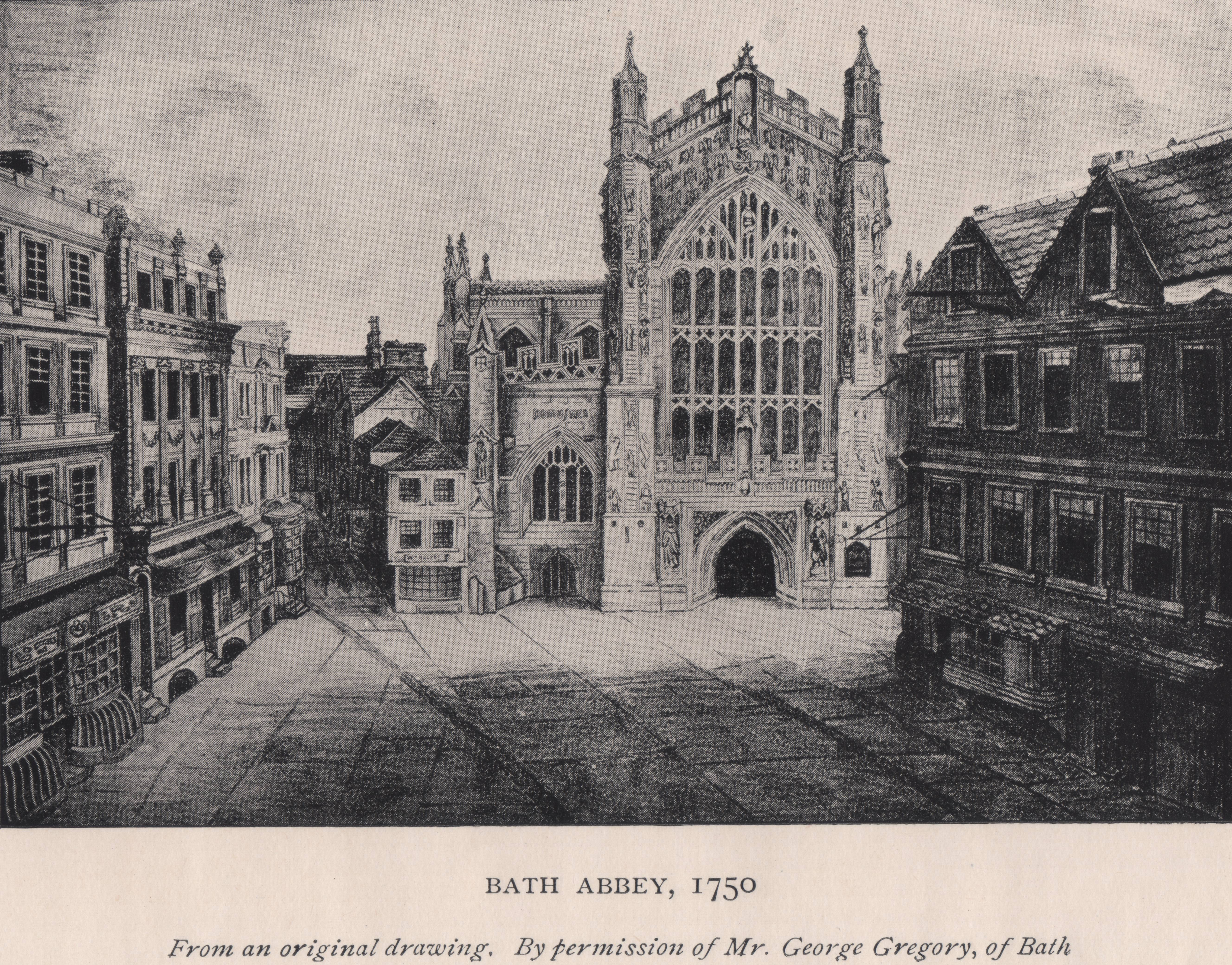 Scanned from The Dramatic Works of Richard Brinsley Sheridan With An Introduction By Joseph Knight And Fifteen Illustrations Oxford Edition Published by Henry Frowde 1906 Oxford University Press Printed by Horace Hart Bookseller label: Boyveau & Chevillet, Paris. Image text: Bath Abbey, 1750. From an original drawing. By permission of Mr. George Gregory of Bath. Book is in the Public Domain in the US and UK Image scanned at 1200 dpi bitmap (colour) then converted to jpeg.